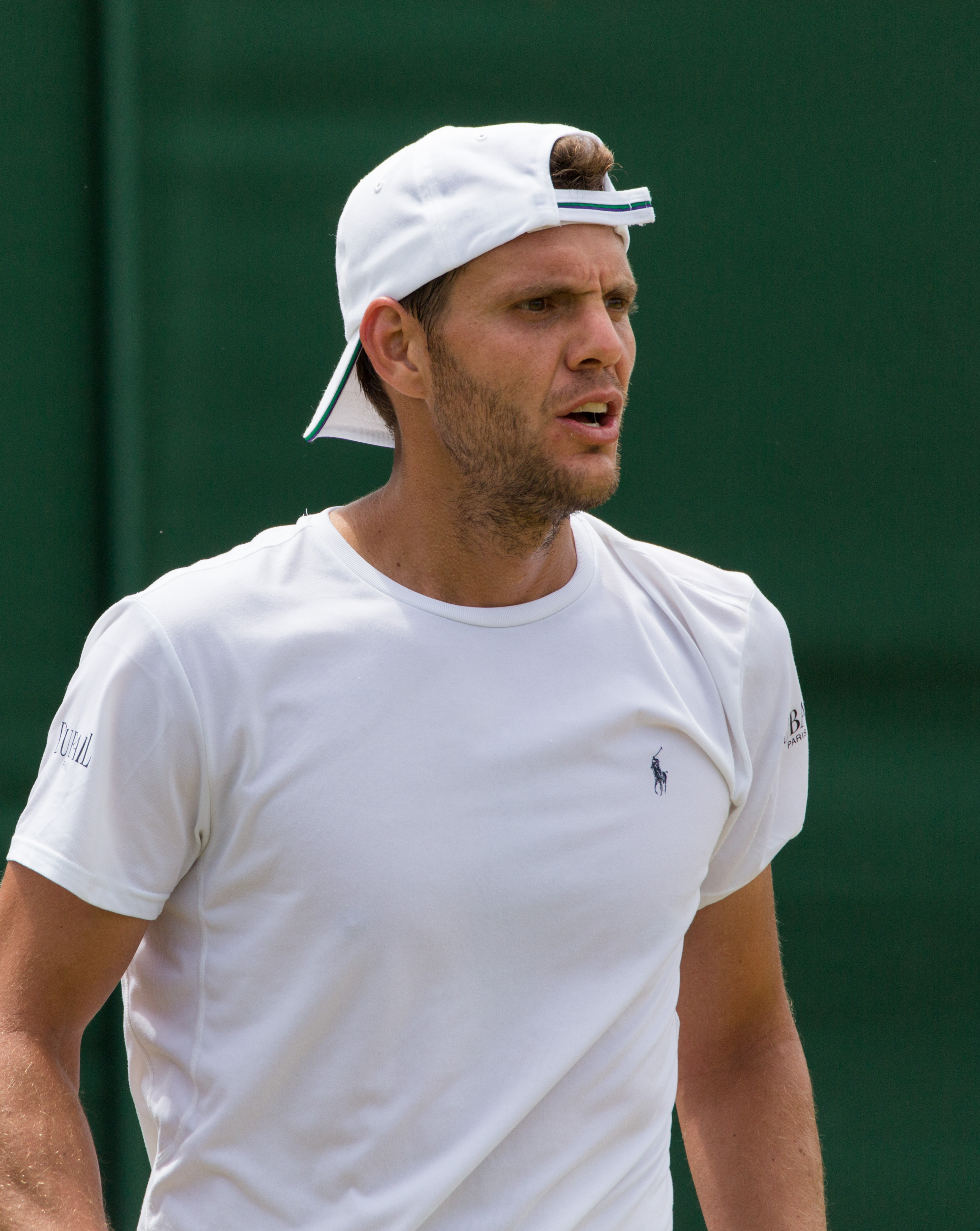 Paul-Henri Mathieu competing in the third round of the 2015 Wimbledon Qualifying Tournament at the Bank of England Sports Grounds in Roehampton, England. The winners of three rounds of competition qualify for the main draw of Wimbledon the following week.